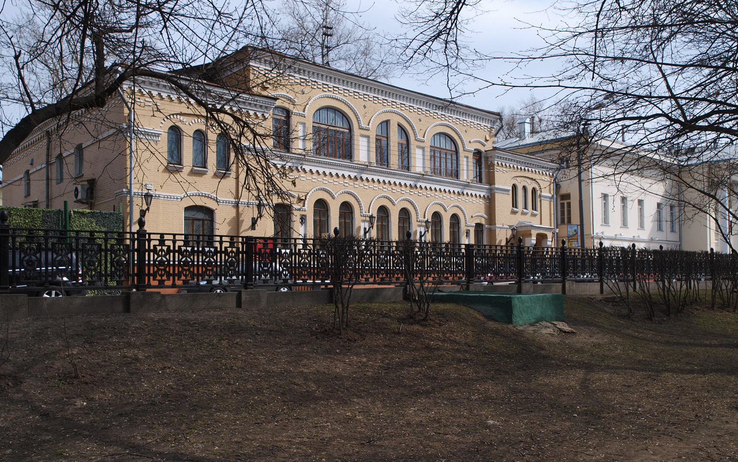 Gogolevsky Boulevard, Moscow.